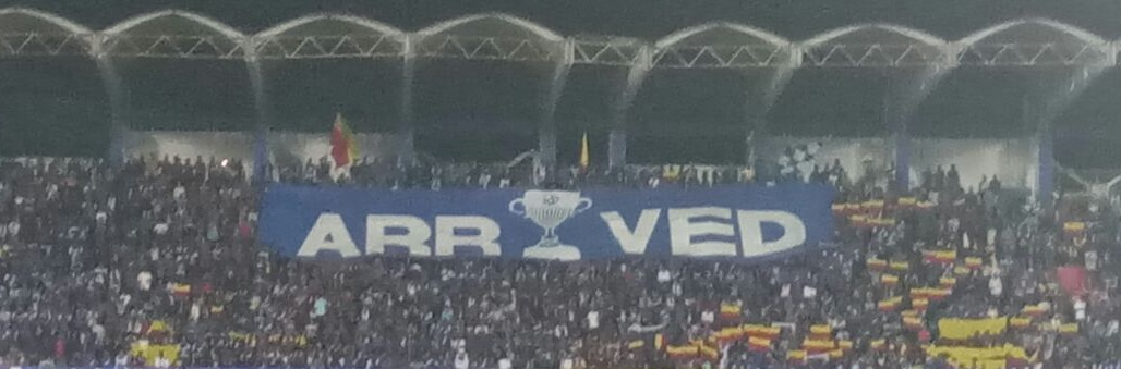 West Block Blues unfurling banner against Mumbai City FC on 19 November 2017, announcing Bengaluru FC's participation in Indian Super League.